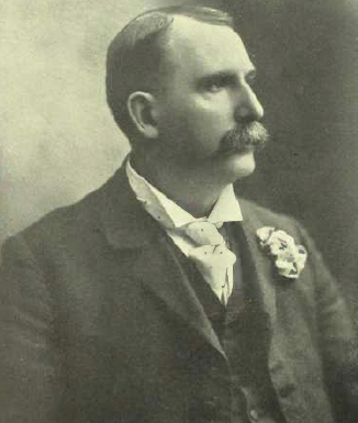 Edward Frederick Clarke Title: Commemorative biographical record of the county of York, Ontario: containing biographical sketches of prominent and representative citizens and many of the early settled families Creator: J.H. Beers & Co Publisher: Toronto : J.H. Beers & co Date: 1907